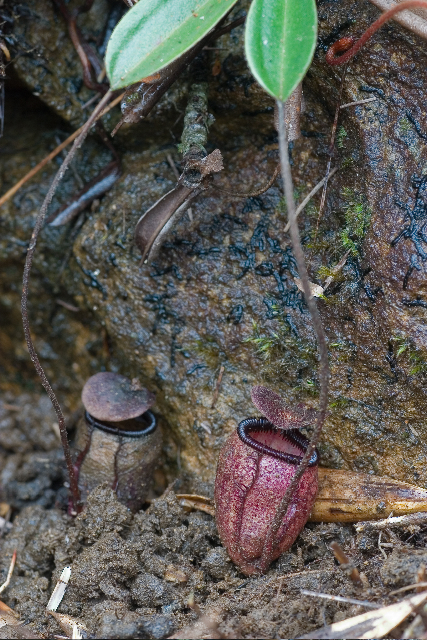 Nepenthes argentii photographed on Mount Guiting-Guiting, Sibuyan Island, Romblon Province (Alastair Robinson, June 2007) - pitcher and tendril.